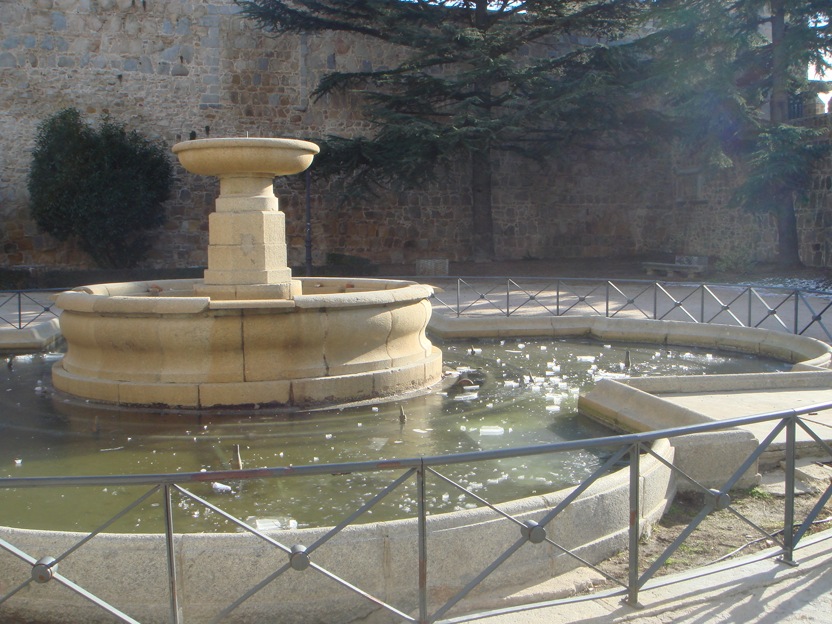 Fountain in Ávila, Spain.